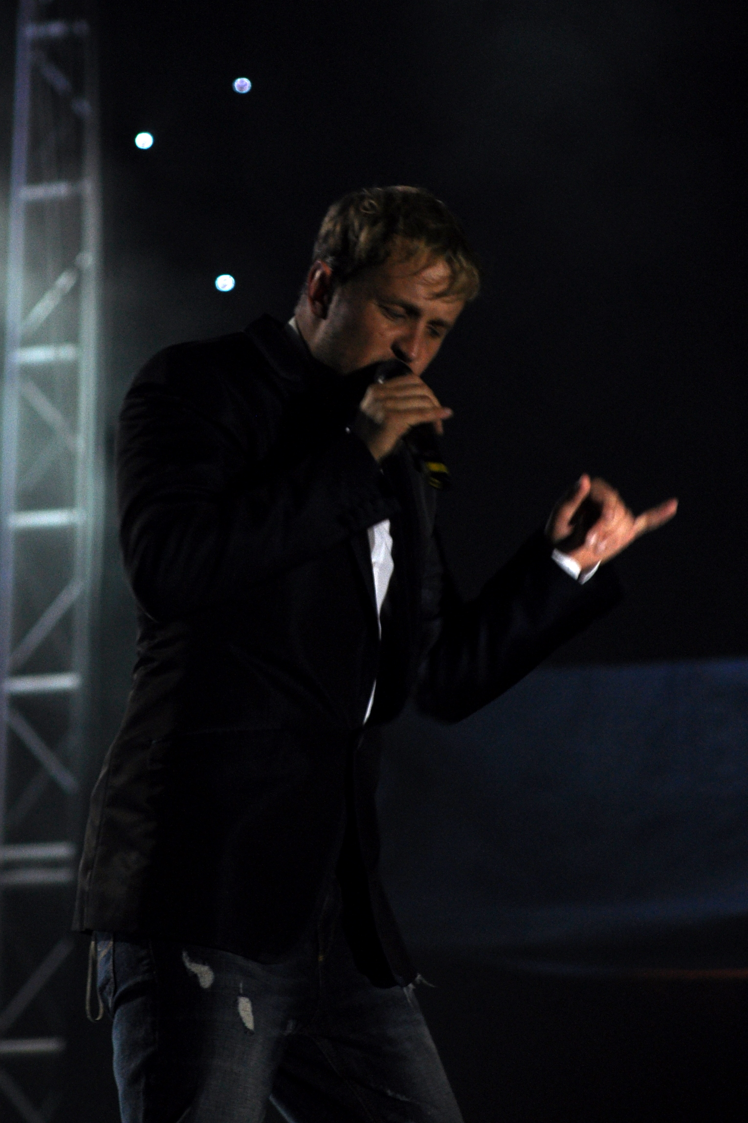 Kian Egan performing live on Gravity Tour in October 2011 in Hanoi, Vietnam